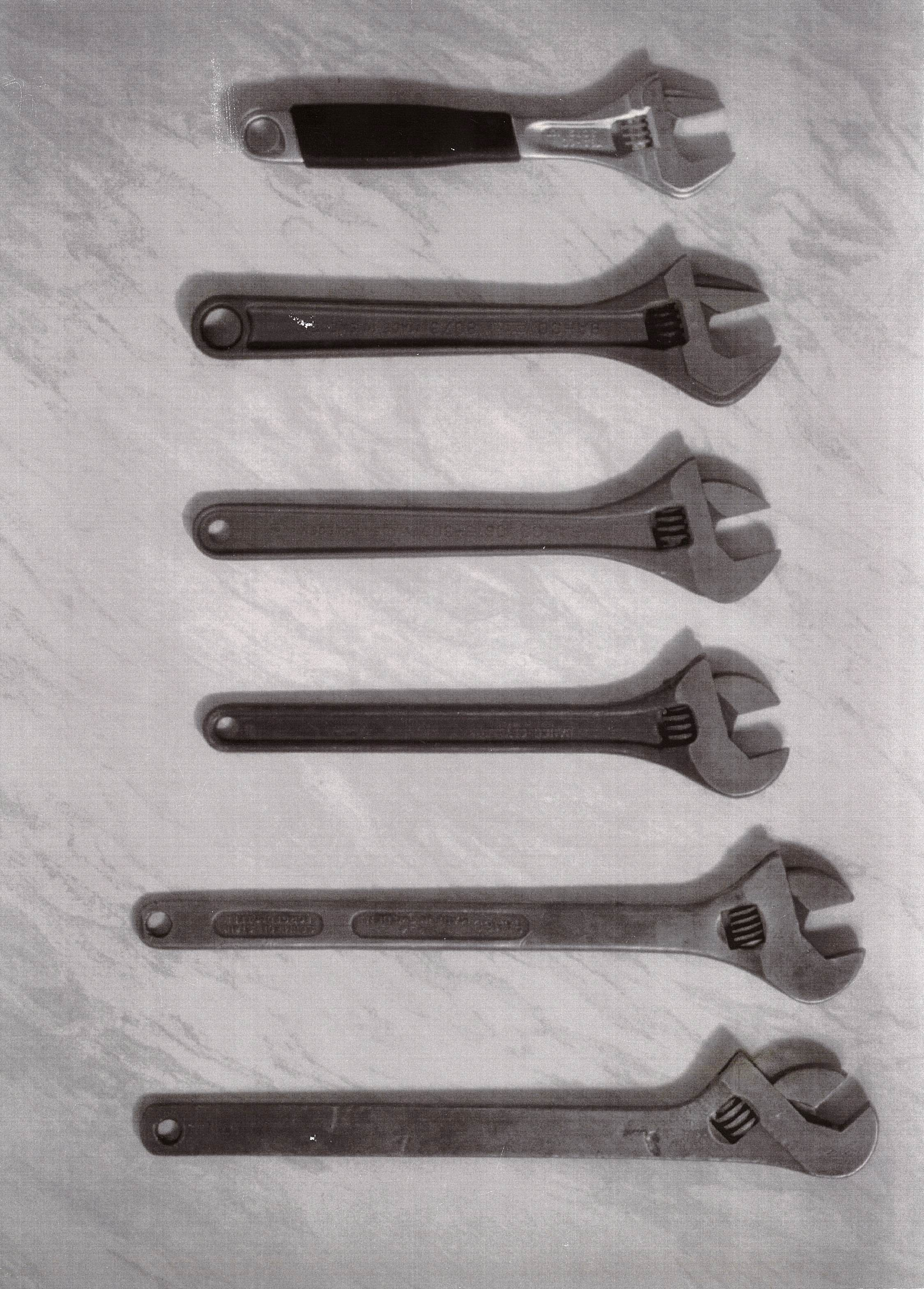 adjustable wrneches